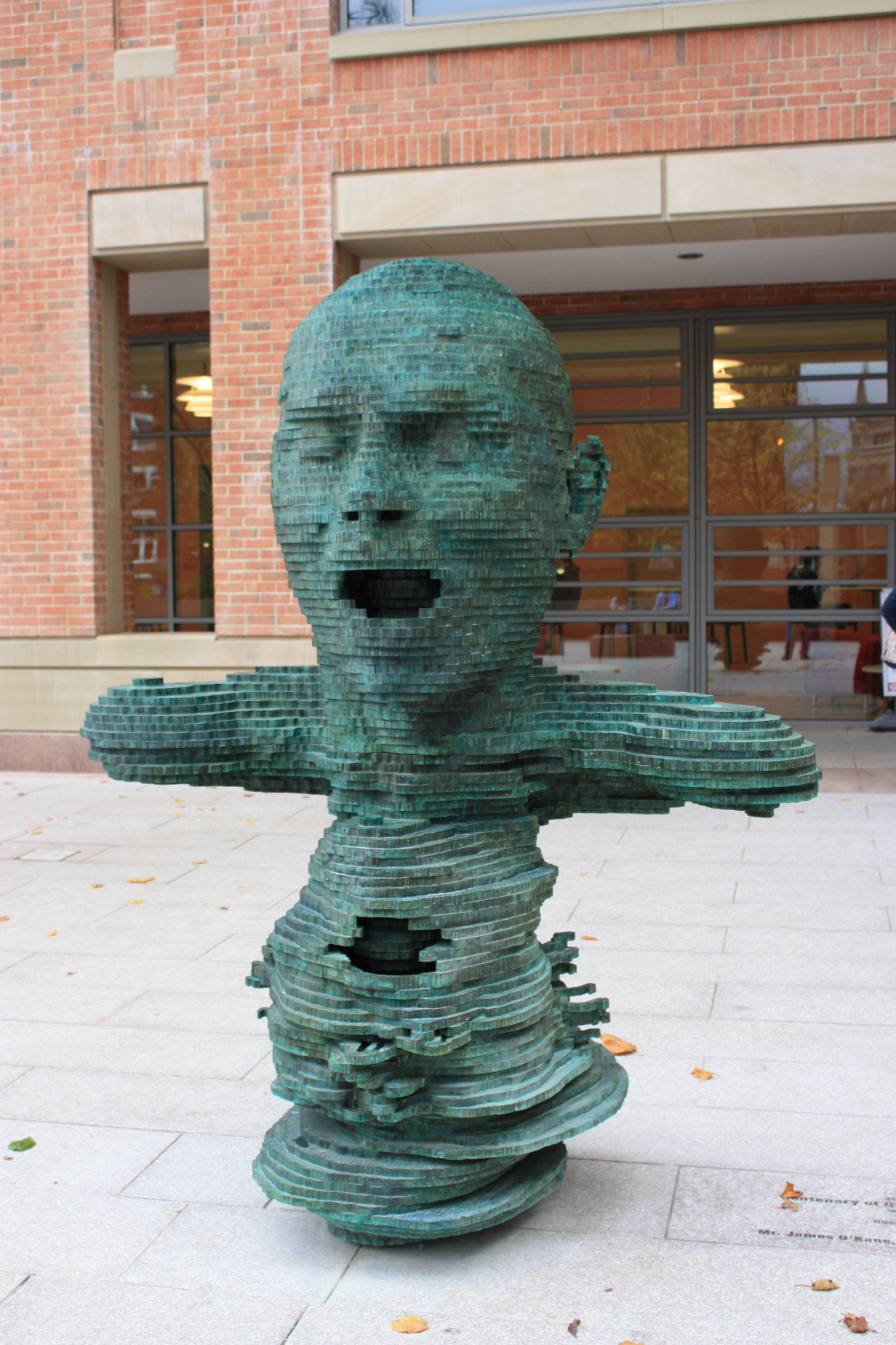 "Eco" by Marc Didou, The Library at Queen's, Queen's University Belfast, College Park, Belfast, Northern Ireland, October 2009